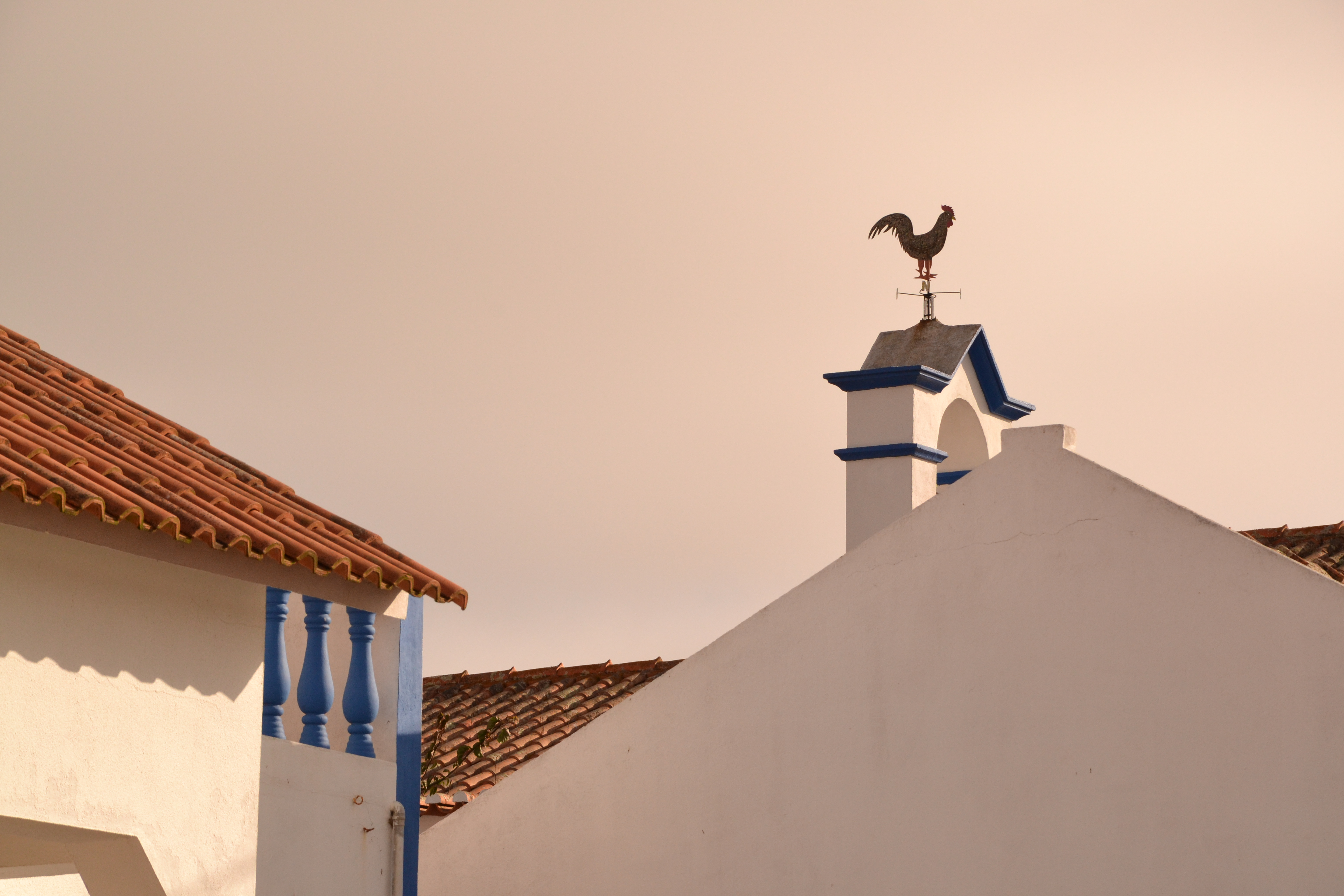 Almograve, Portugal - Detail. August 2016